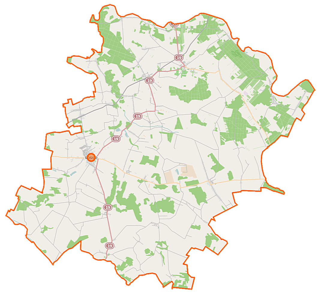 Map of Powiat łosicki, Poland This map of Powiat łosicki was created from OpenStreetMap project data, collected by the community. This map may be incomplete, and may contain errors. Don't rely solely on it for navigation. Border coordinates52.389022.5515←↕→23.142752.0584